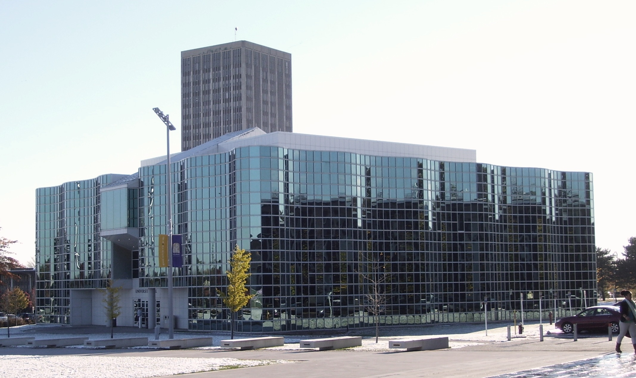 University Hall of the University at Albany, State University of New York, with the tower of State Quad behind it.